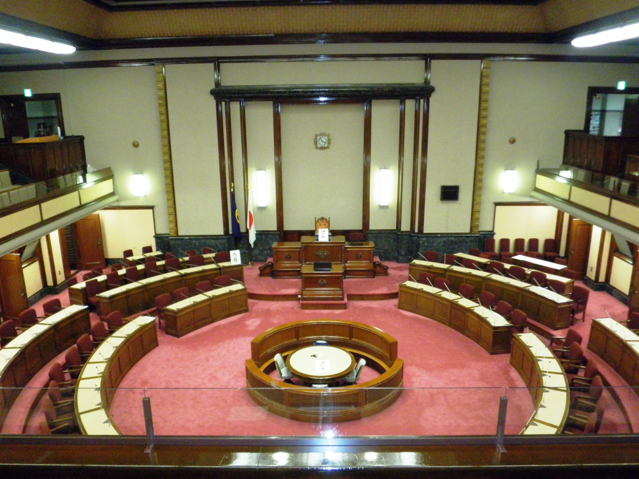 Assembly Hall of the Nagoya City Hall.